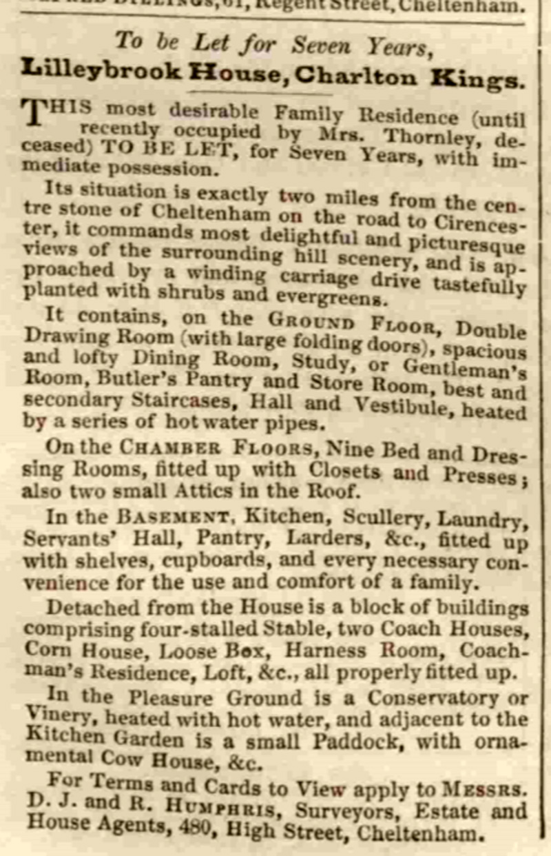 Rental notice for Lilleybrook (now Cheltenham Park Hotel) at Charlton Kings, 1865